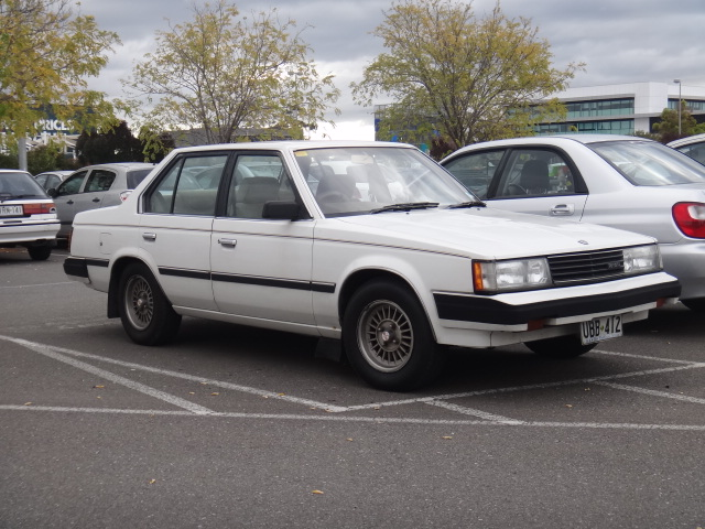 These are pretty hard to find nowadays and to find this one in such good condition, was a bonus!! This model Corona was built here in Australia in sedan and wagon bodystyles and I believe there is a coupe version too, but I've never seen one before.